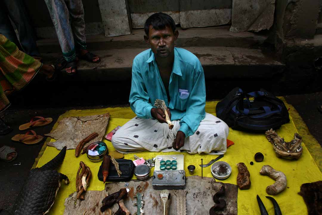 Traditional healer or shaman selling his wares of various animal parts on the streets of Dhaka.